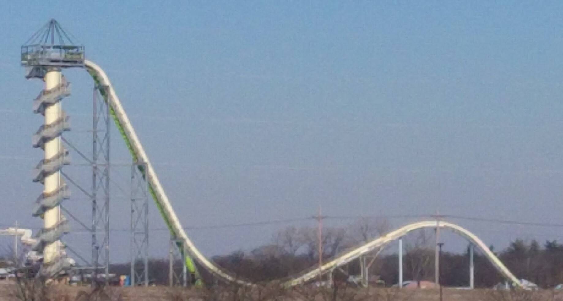 Verrückt water slide at Schlitterbahn Kansas City after the accident but before tear down. Seen from I-435 North